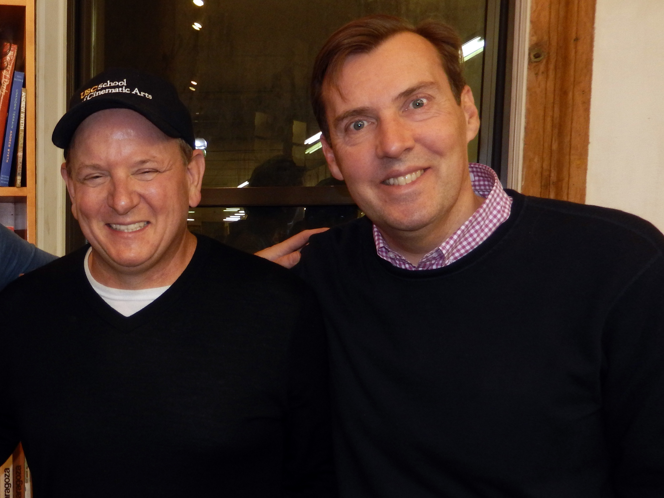 Creators of Smallville and Into the Badlands. NYC April '19.